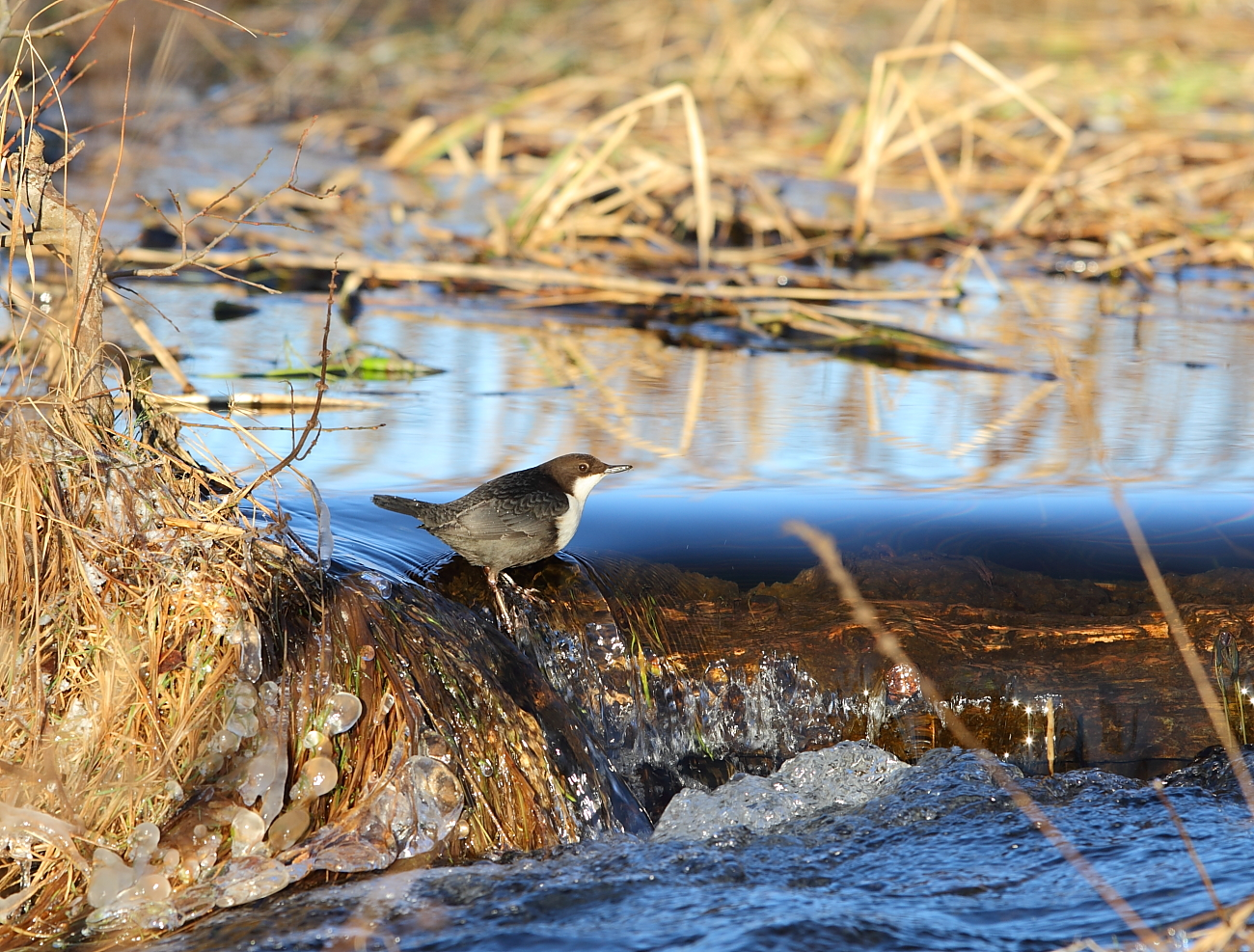 White-throated DipperLatina: Cinclus cinclus